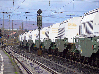 Freight train with French-produced Transnuclear TN 85 nuclear waste containers on its way to Gorleben, Germany. Photographed near Kreiensen.